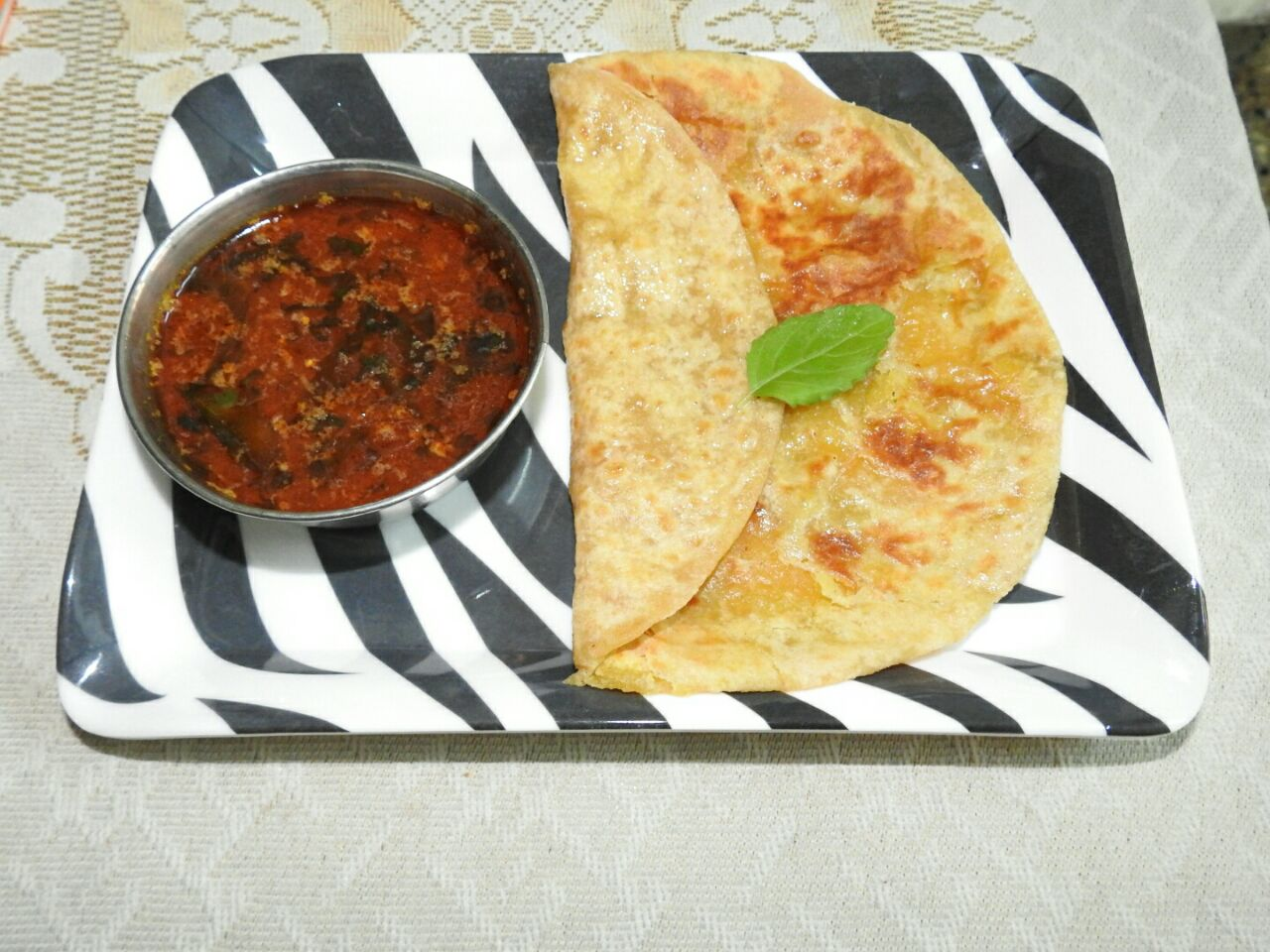 Puran Poli and Katachi Amti. Cooked by Ms. Ujwala Raju Kasambe. Image by Dr. Raju Kasambe